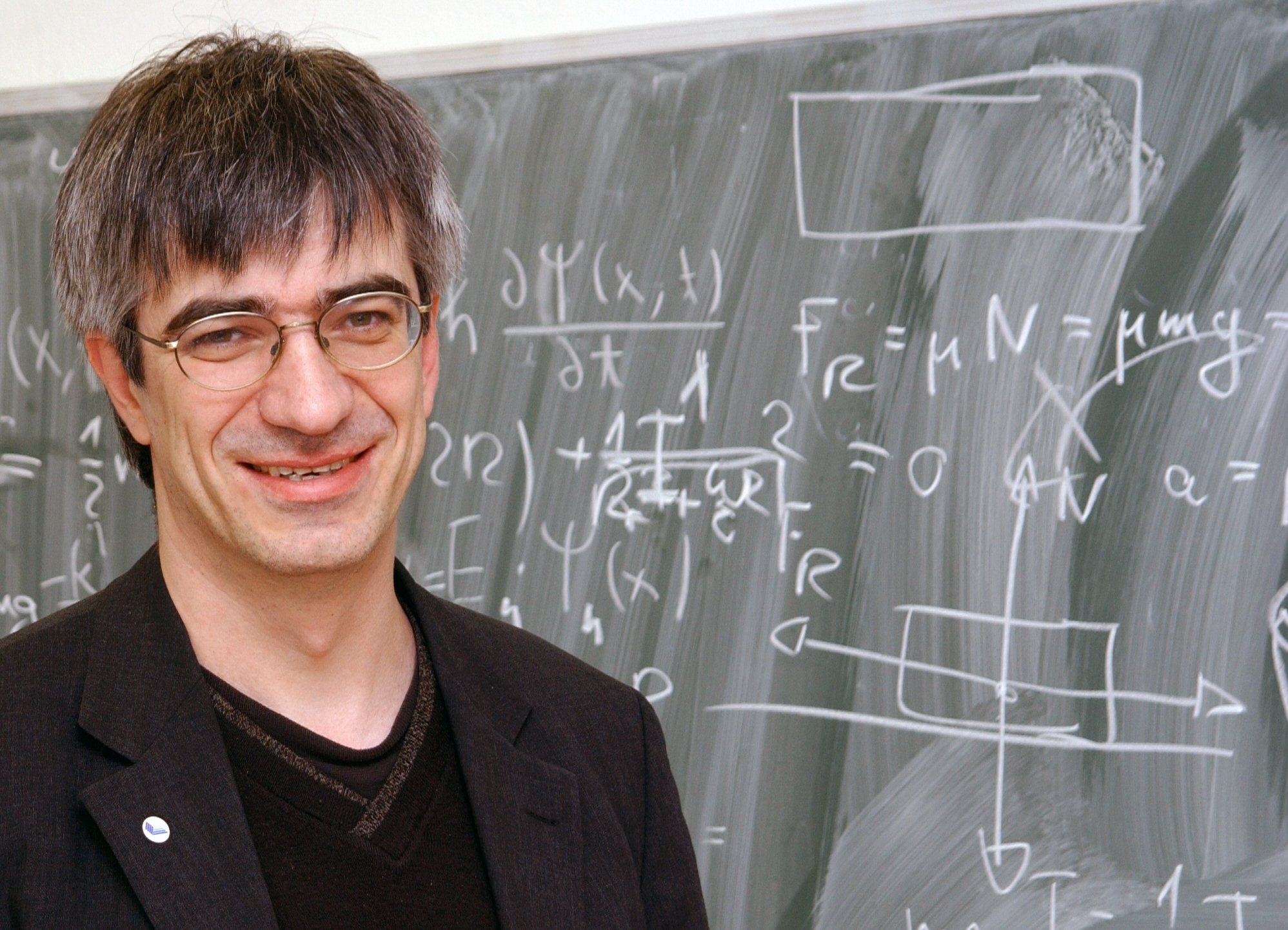 Prof. Dr. Metin Tolan, German physicist at Technische Universität Dortmund, 2004